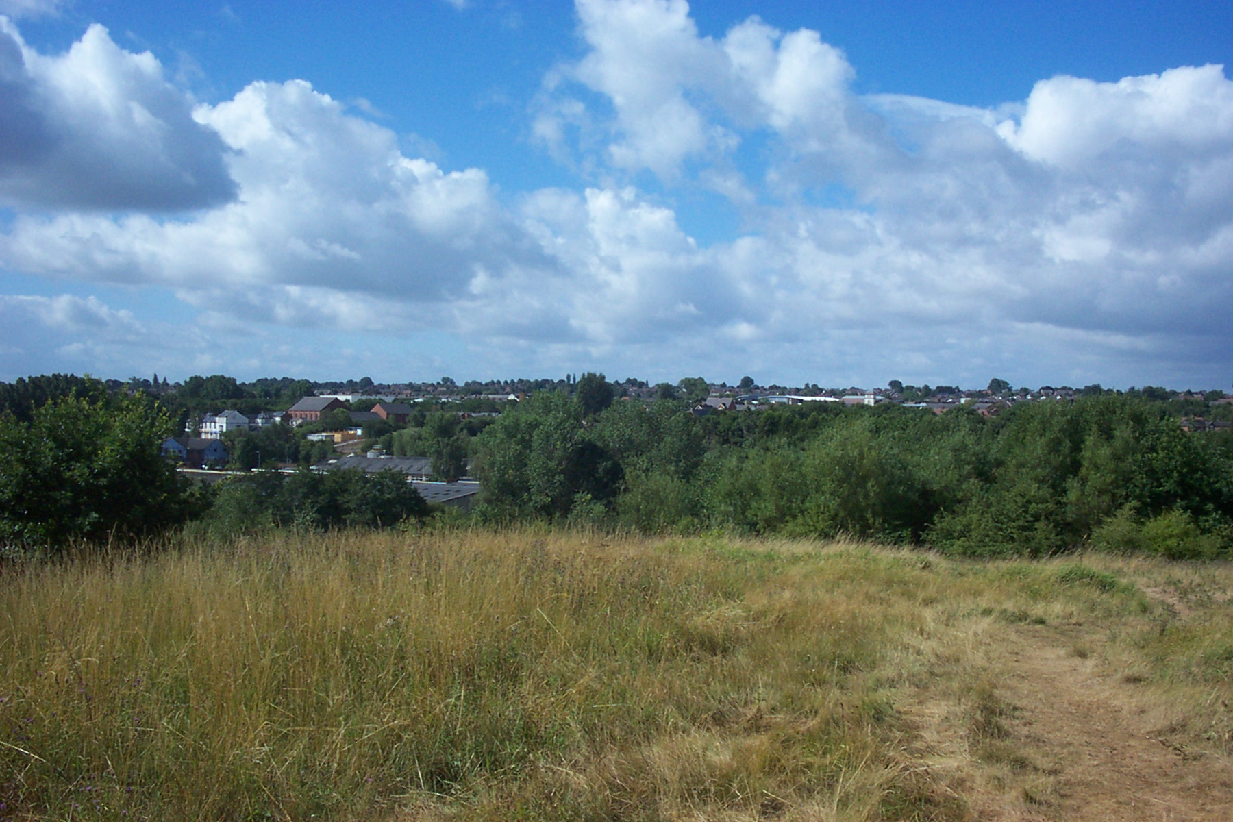 View from Weaver Valley Parkway, Wharton Hill towards Winsford, Cheshire. IantheLibrarian 19:19, 15 August 2006 (UTC) At the right part and estate its really nice and sometimes peaceful.